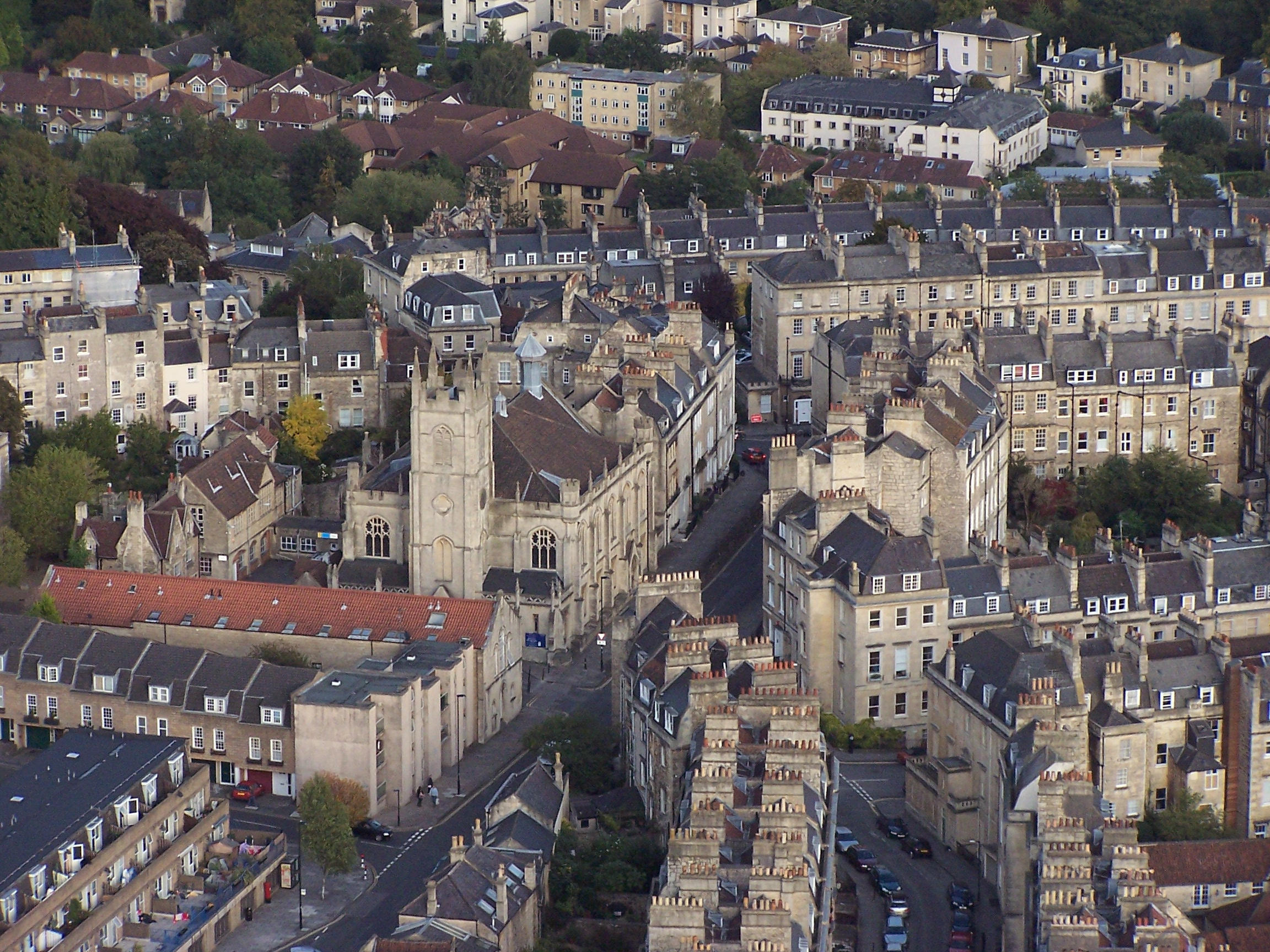 Christ Church, Julian Road, etc., from a balloon